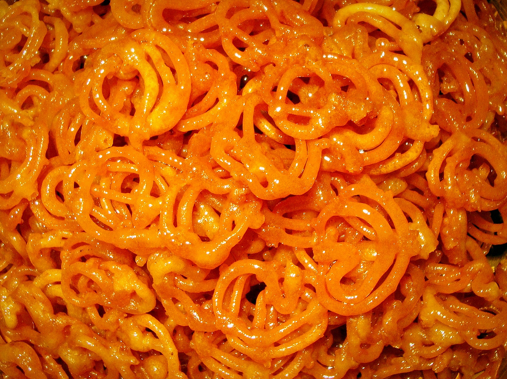 Awadhi jalebi